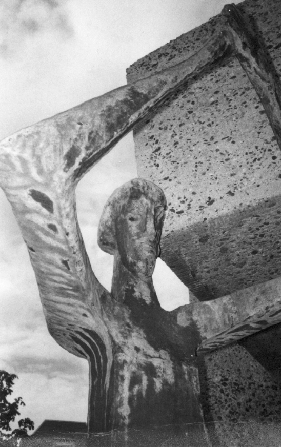 Polish Monument in the Plac Polski, Driel, September 21, 2004 Photo by Fawcett5